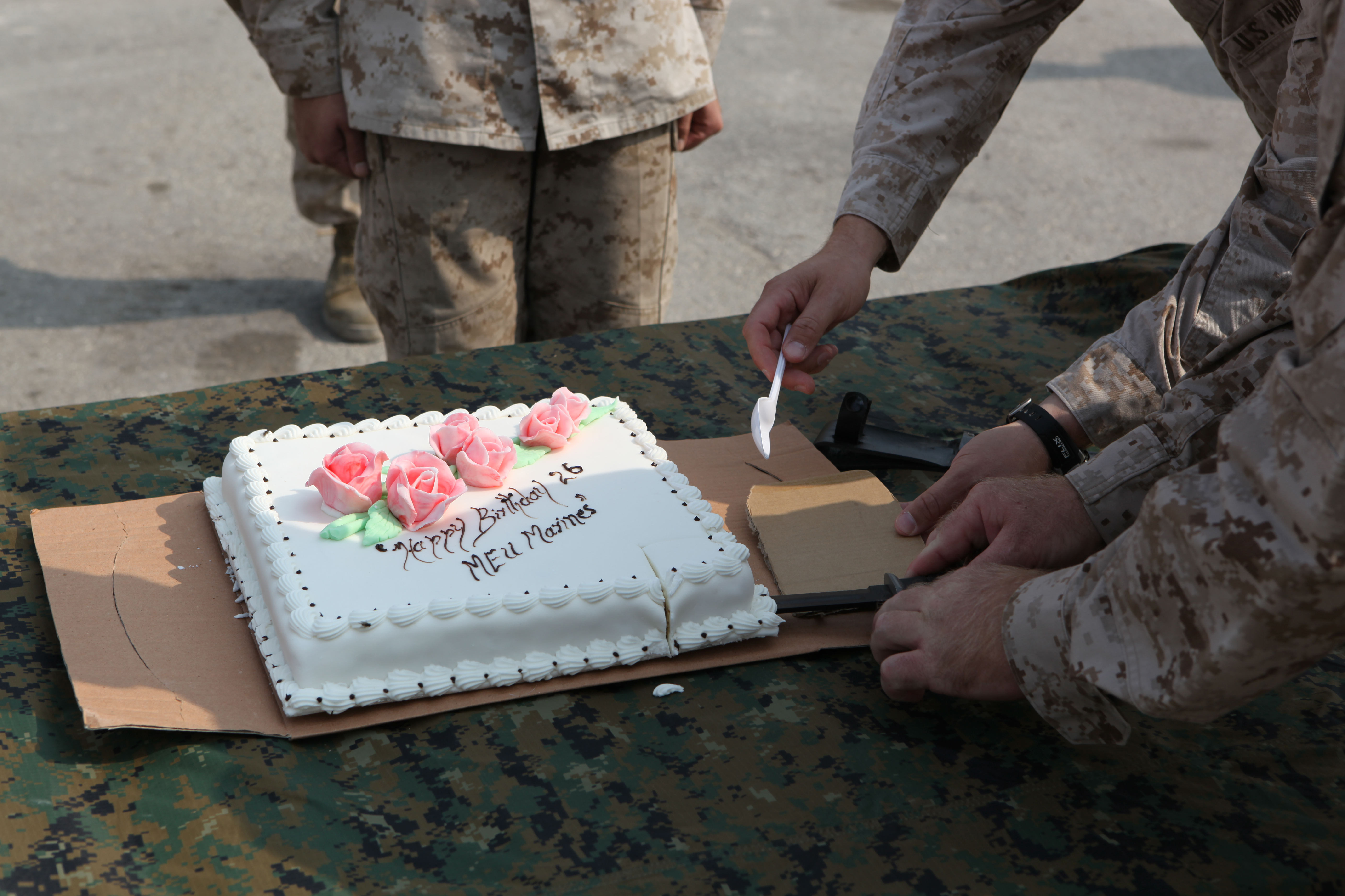 Master Sgt. Jamie D. Revis and Maj. David Schreiner cut the cake with a K-bar knife during a Marine Corps birthday ceremony on the flight line at Pano Aqil Cantonment, Pakistan, Nov. 10, 2010. The Marines were honored at an end-of-operations ceremony earlier that day. With the Pakistan military, 26th MEU Marines have been flying CH-53E Super Stallion Helicopters to isolated flood-affected locations since early September and have transported more than 3.9 million pounds of World Food Programme flood relief supplies to 150 different locations in southern Pakistan. (Official USMC photo by Lance Cpl. Nicholas A. Kellogg) (Released)